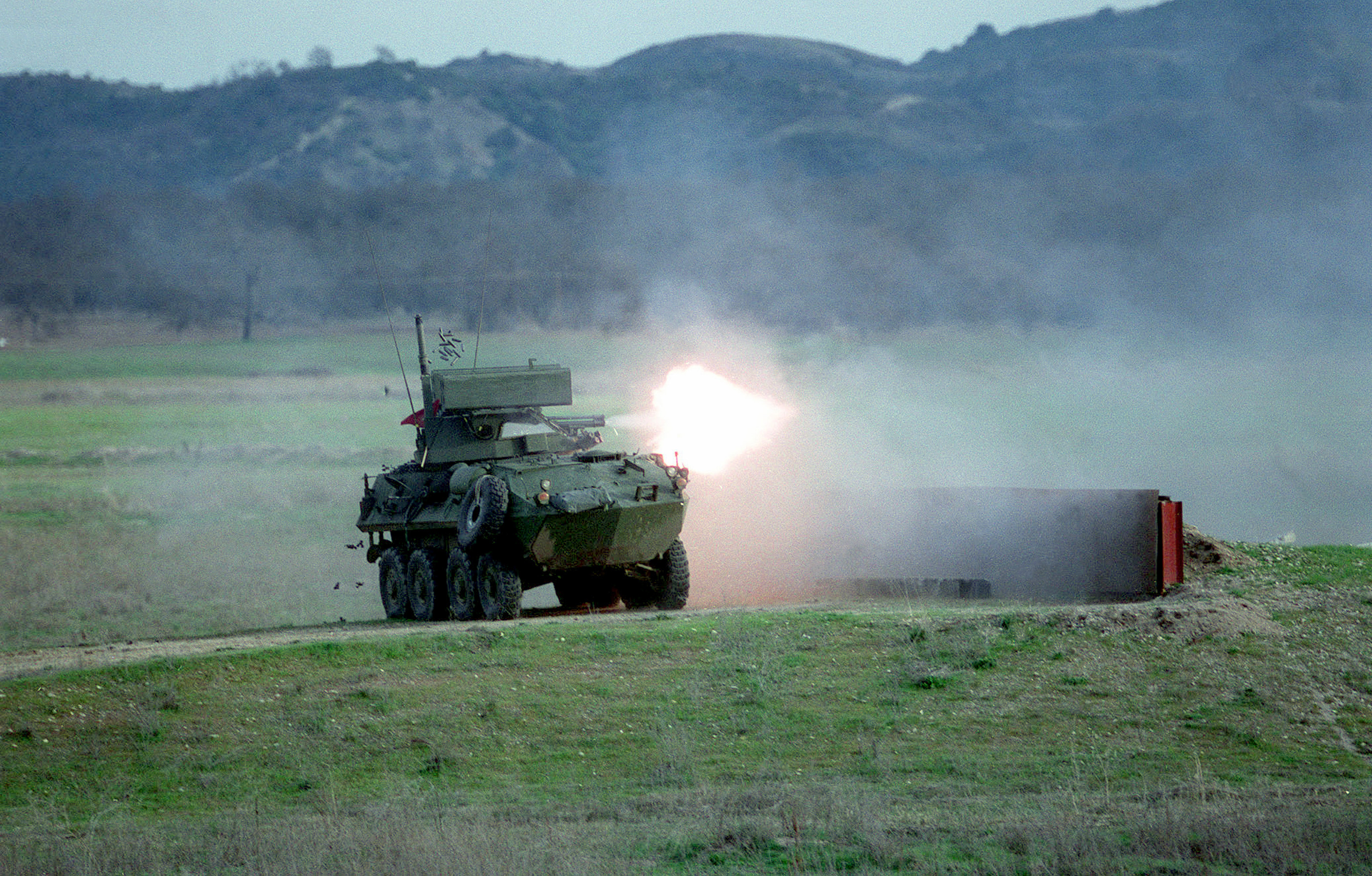 From the source: "A Light Armored Vehicle-Air Defense (LAV-AD) from 4th Light Armored Reconnaissance fires down range with it's rapid fire GAU-12/U 25mm Gatling gun during Exercise Highland Thunder aboard Fort Hunter Liggett in Jolon, California."